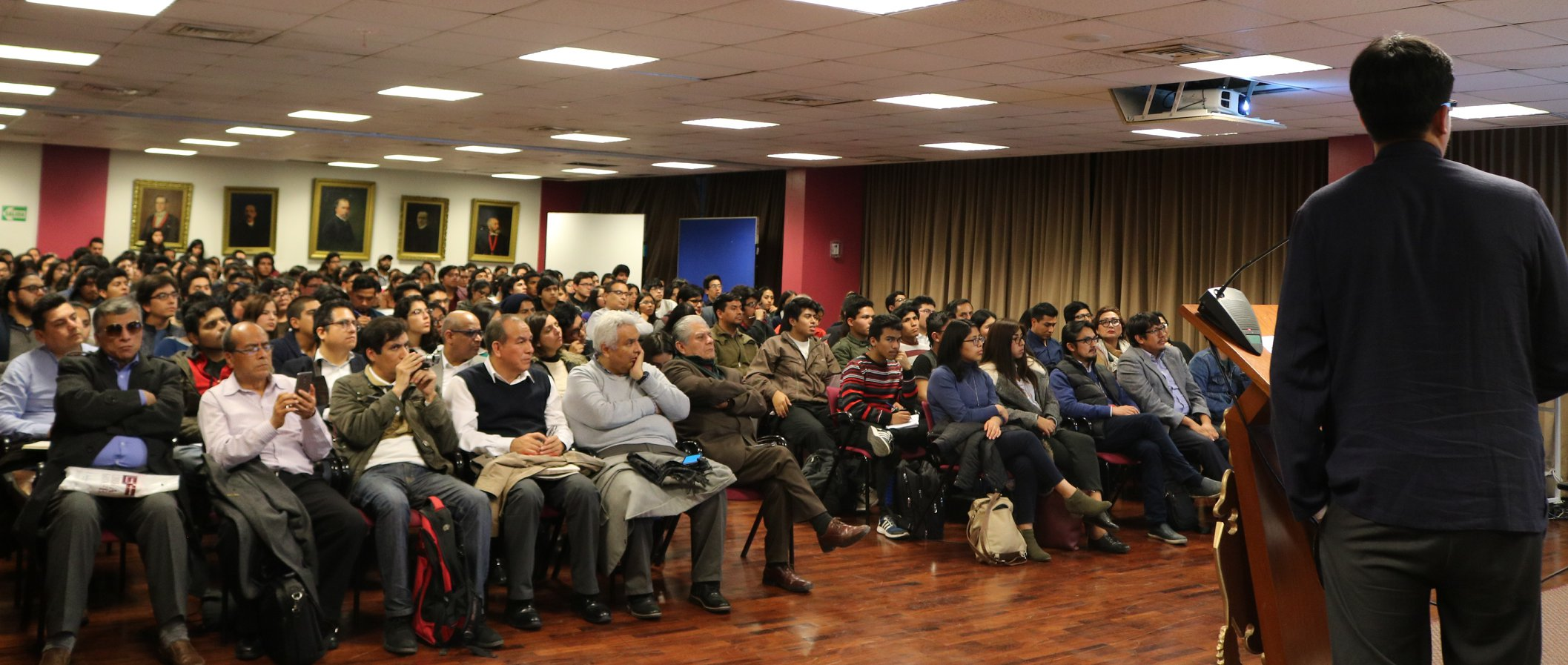 Conference on Behavioral Economics in the Deparment of Economic Sciences of the National University of San Marcos (Lima, Peru).